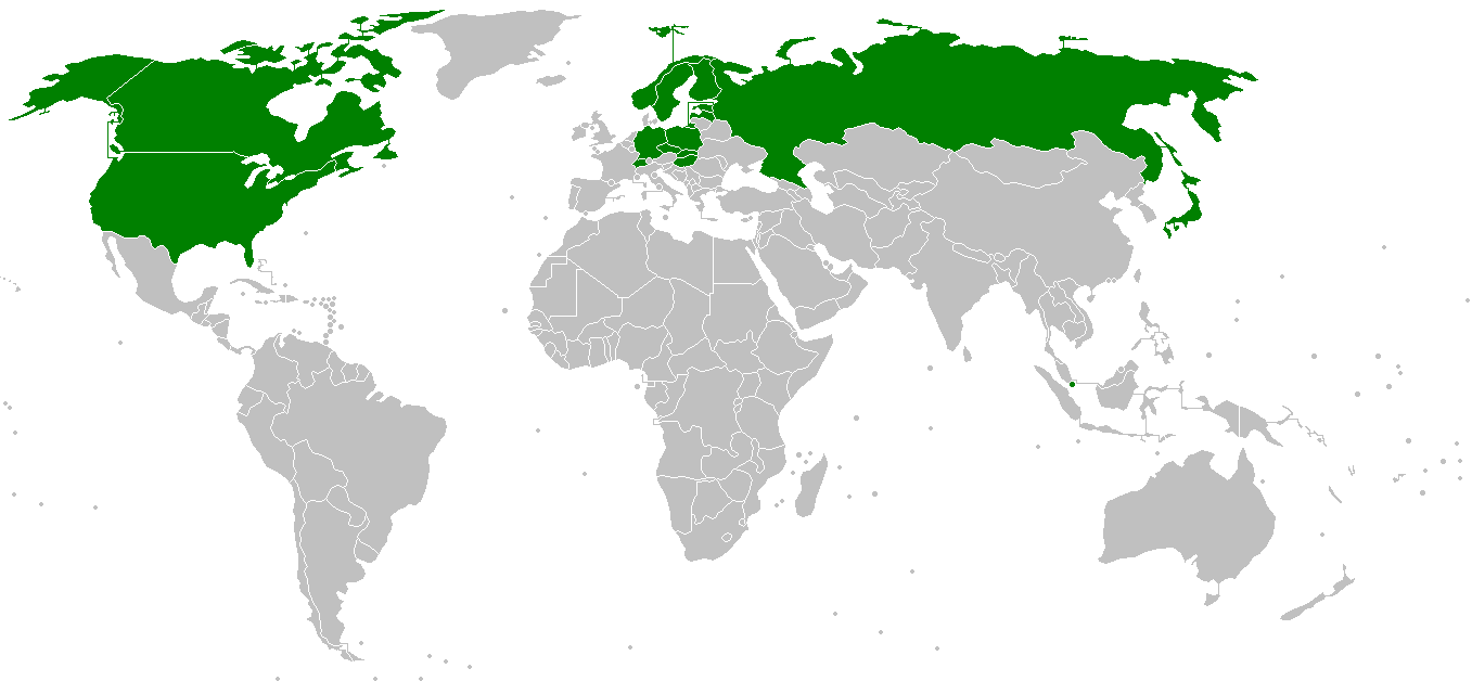 Participants of the 2012 Floorball Men's World Championschips